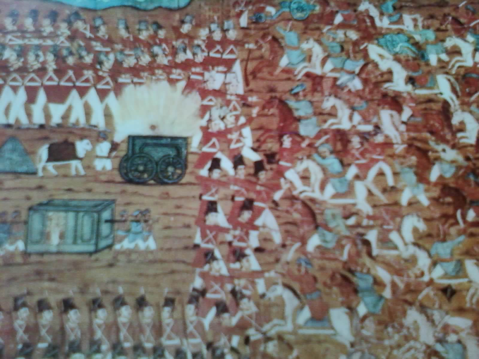 A painting in Srirangapatana